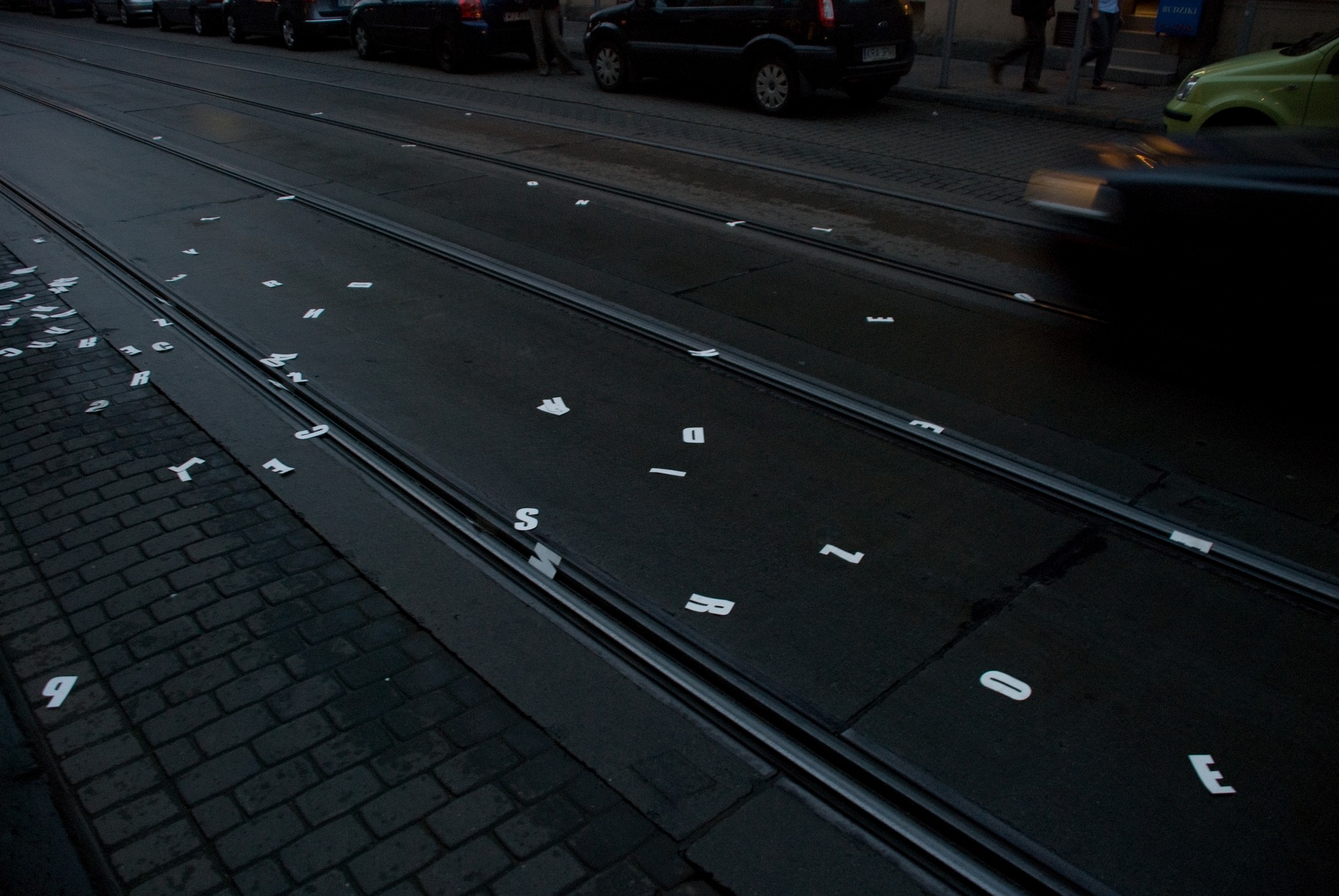 Ewa Partum, Active poetry: Tadeusz Peiper, Infinitives, 2009, fot. Zofia Waligóra